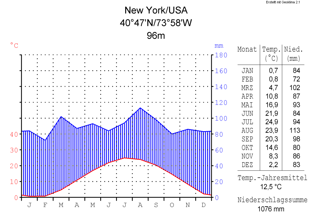 climate chart in the format by Walther and Lieth, metric, °Celsisus and millimeters, made with Geoklima 2.1